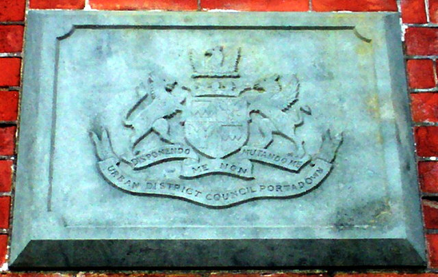 Plaque. This plaque is situated high on the wall at the rear of the pumping station near the Bann River bridge. The translation of the Latin inscribed on the Coat of Arms is "By arranging me not changing me." See 668116 and 667116